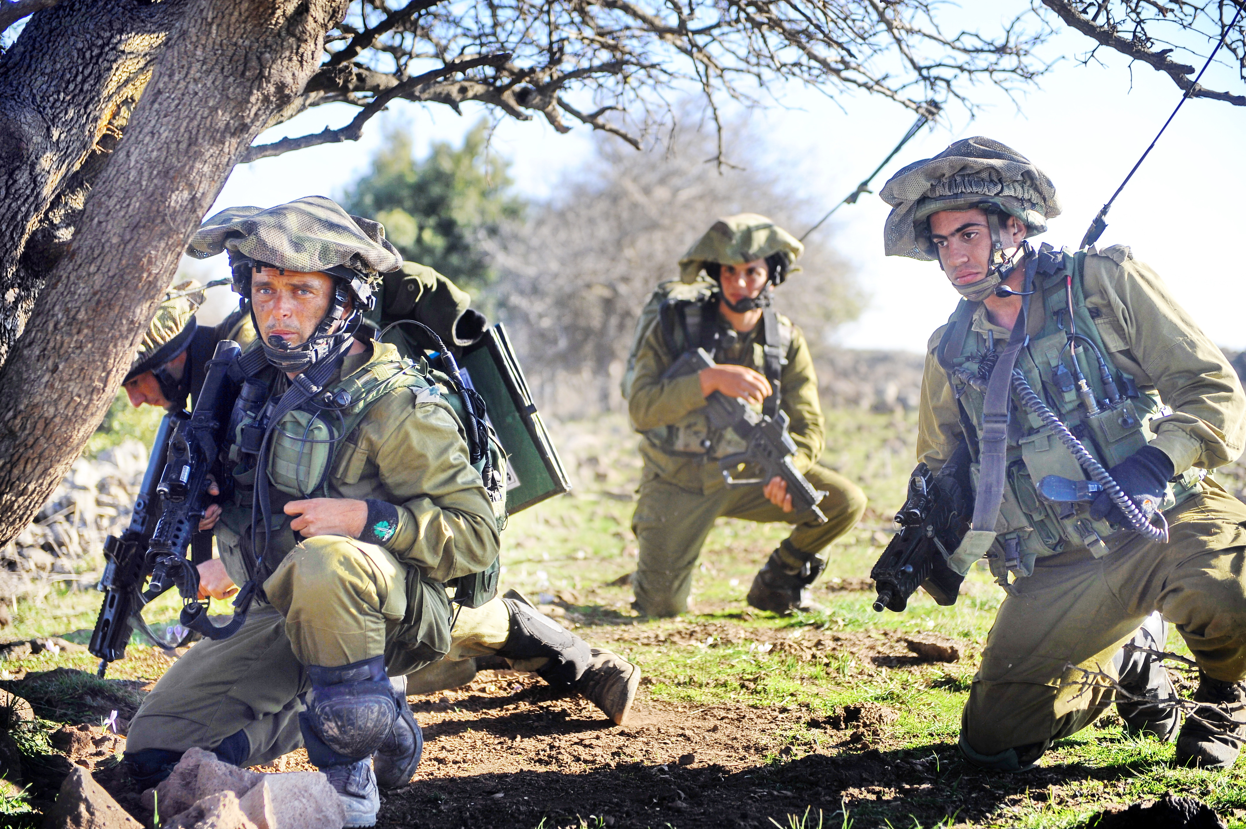 November 29, 2011 The Golani Brigade held a drill in the Golan Heights last week, simulating a battle on Israel's northeastern border. While observing the drill, Israel Defense Minister Ehud Barak described the quiet on the Golan Heights as "fragile." Photo by Sgt. Ori Shifrin, IDF Spokesperson Unit. Featured as photo of the day on February 1, 2012. The Israel Defense Forces Facebook • blog • Twitter